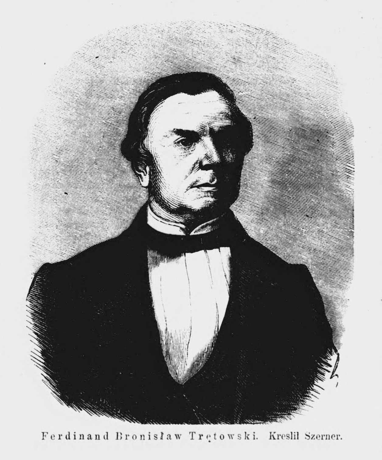 Portrait of Bronisław Ferdynand Trentowski (1808-1869), Polish philosopher